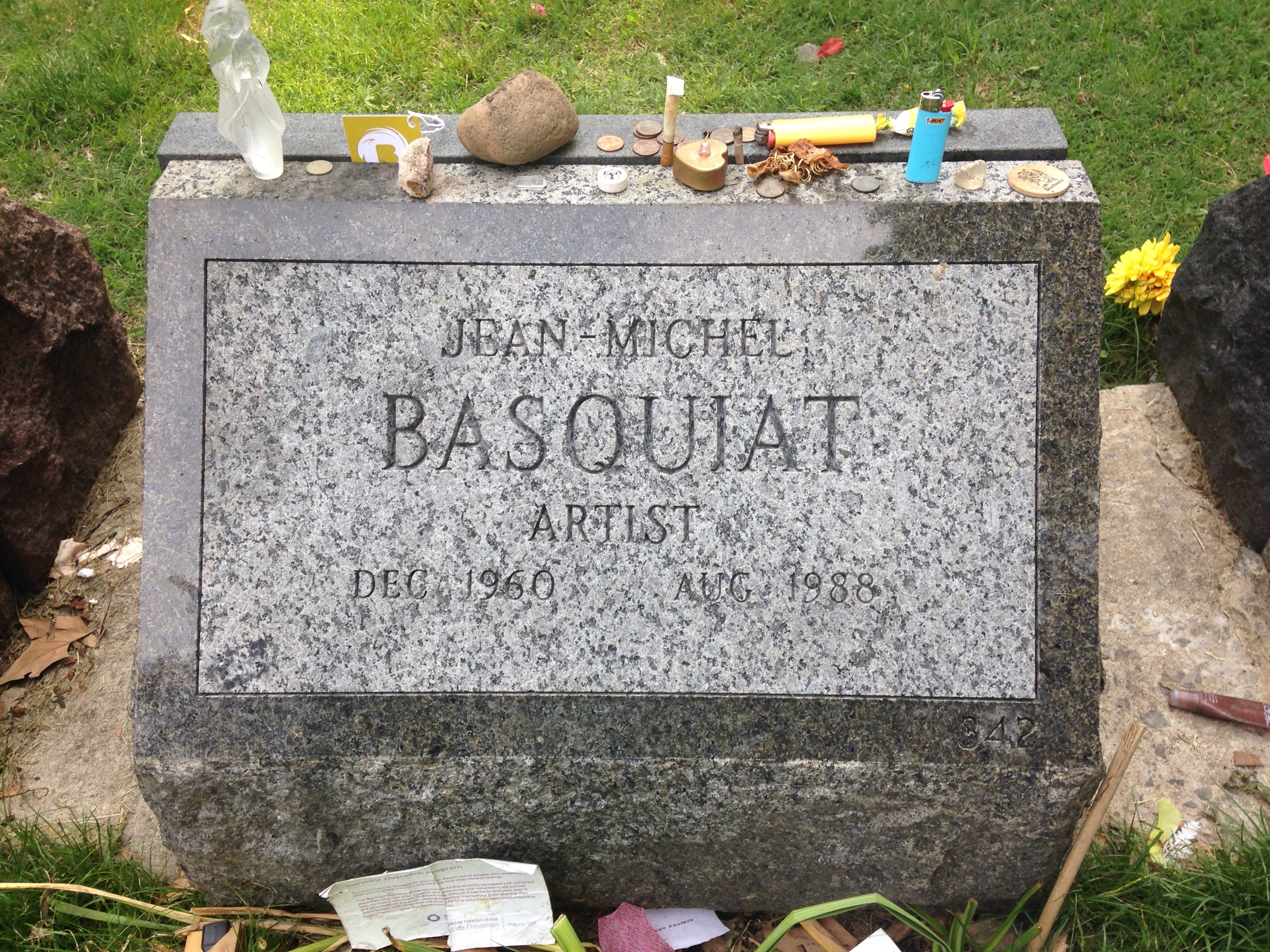 Grave of Jean-Michel Basquiat at Green-Wood Cemetery, Brooklyn, New York